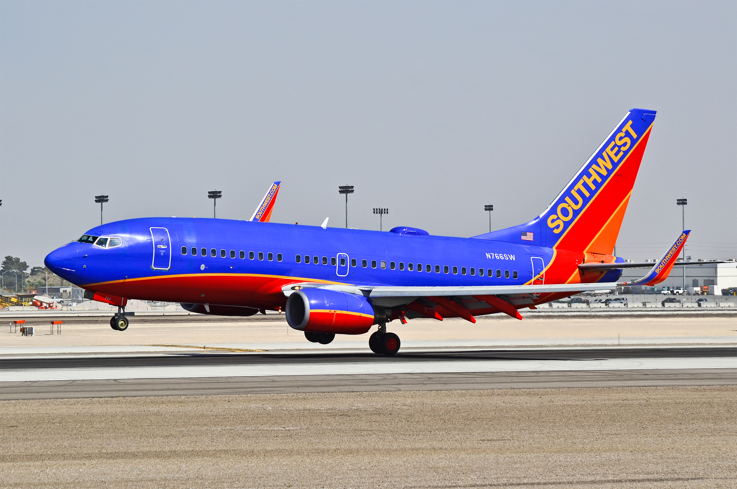 Heavy windy day and dust cloud... - Las Vegas - McCarran International (LAS / KLAS) USA - Nevada, March 6, 2012 Photo: Tomás Del Coro